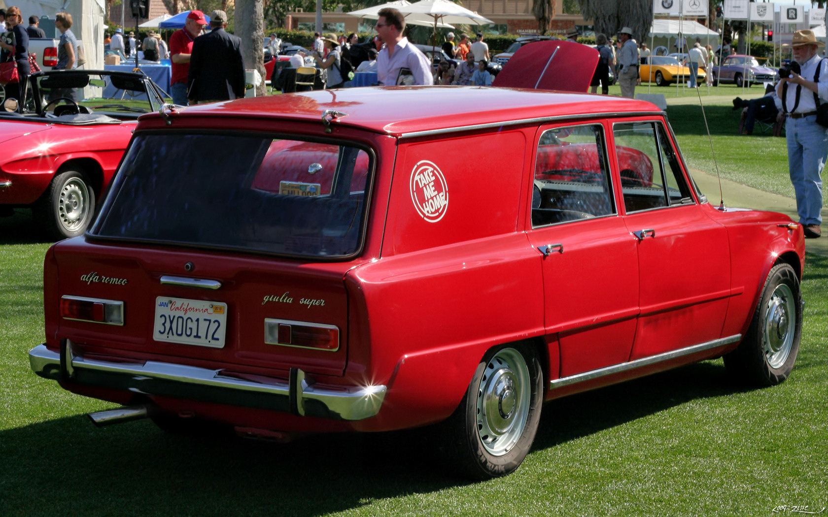 Palm Springs Desert Classic Concours d'Elegance, March 01, 2009